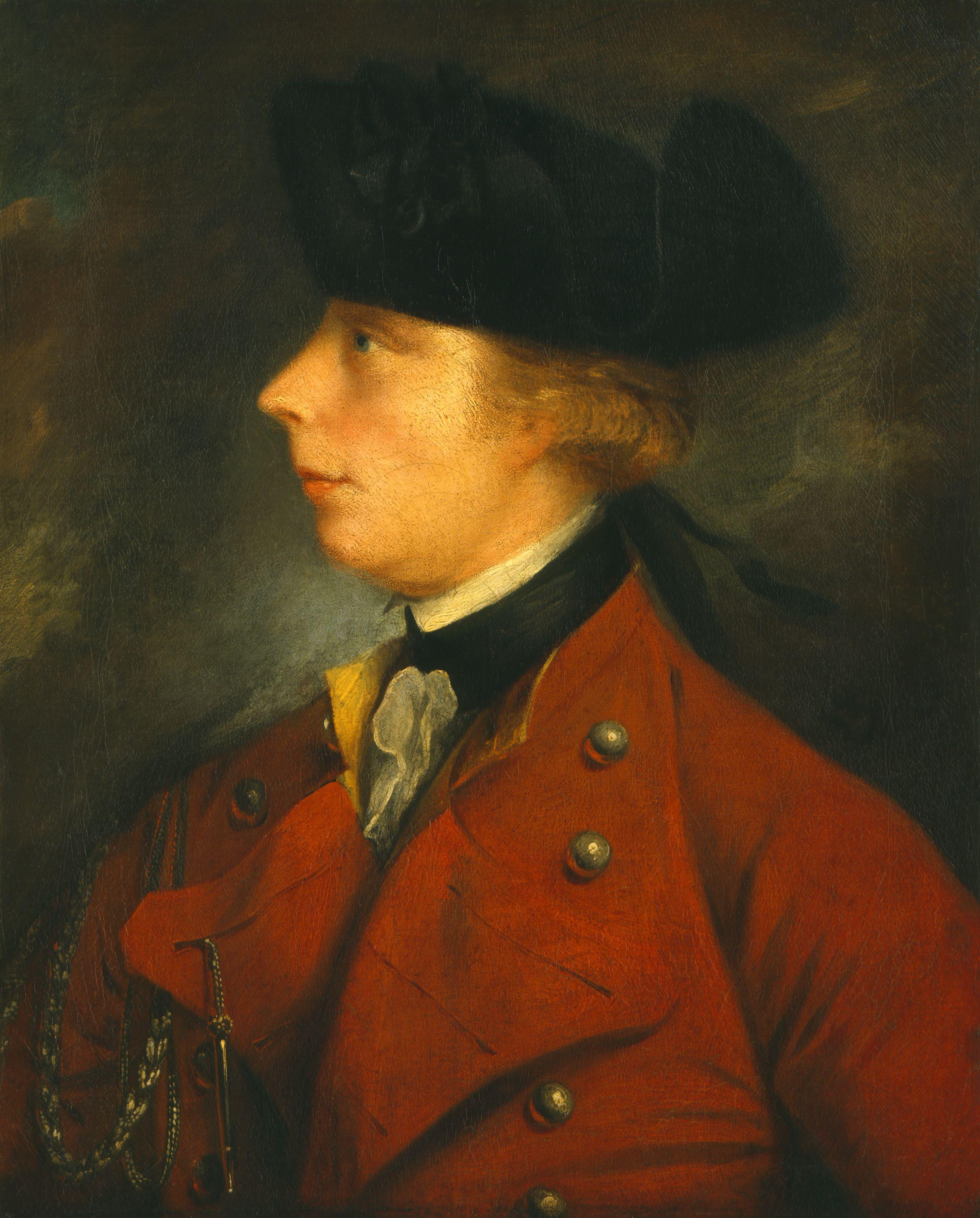 James Wolfe Work given to the National Portrait Gallery, London in 1858. All images in this batch have a known author with unknown death date, but according to the NPG's website the author was floruit (known to be active) prior to 1859, and so is reasonably presumed dead by 1939.